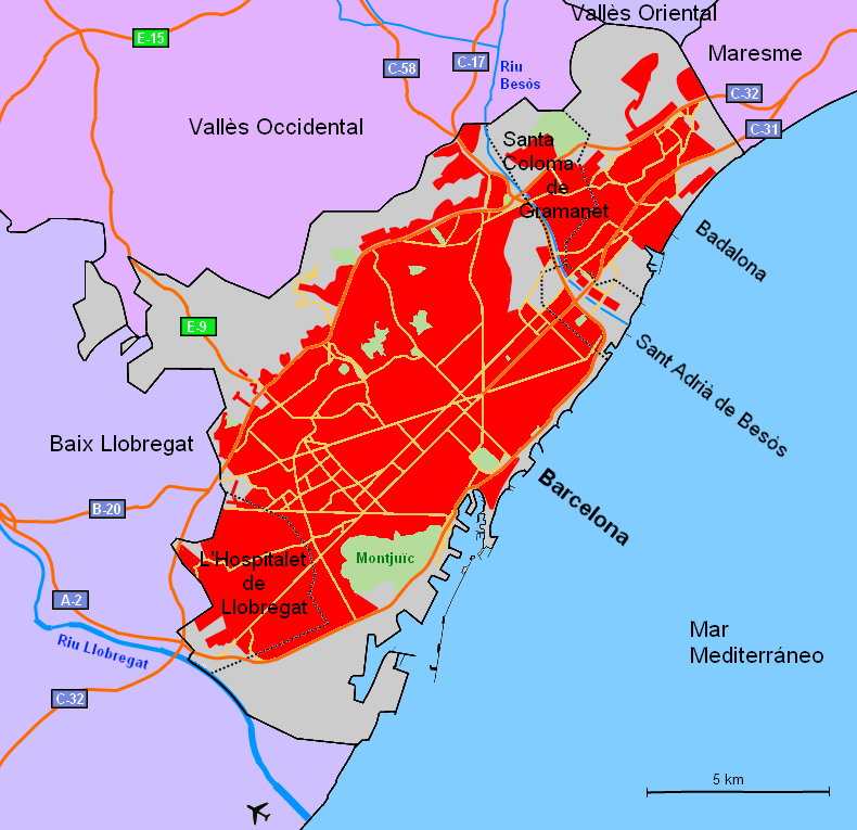 Map of the comarca Barcelonès, Catalonia, Spain